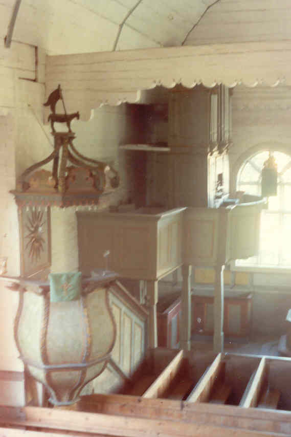 Pulpit of the Ulrika Eleonora Church, Kristinestad, Finland